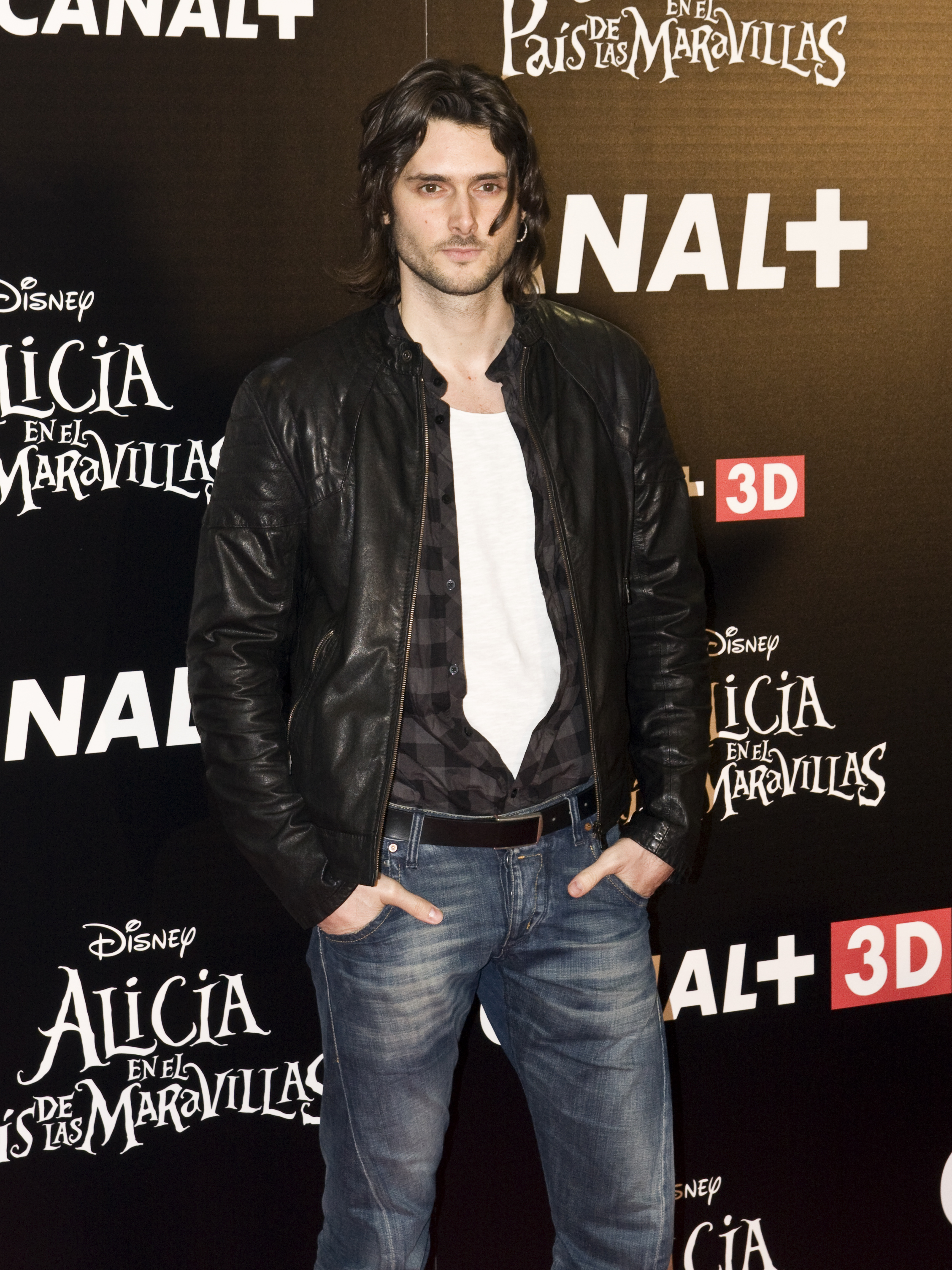 Sergio Mur Spanish actor at the photocall of Alice in Wonderland in 2010.